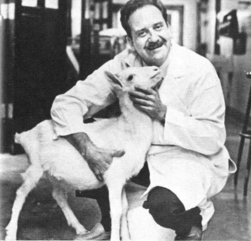 California Institute of Technology Professor Ray D. Owen